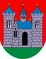 Municipal coat of arms of Příbram town, Czech Republic.